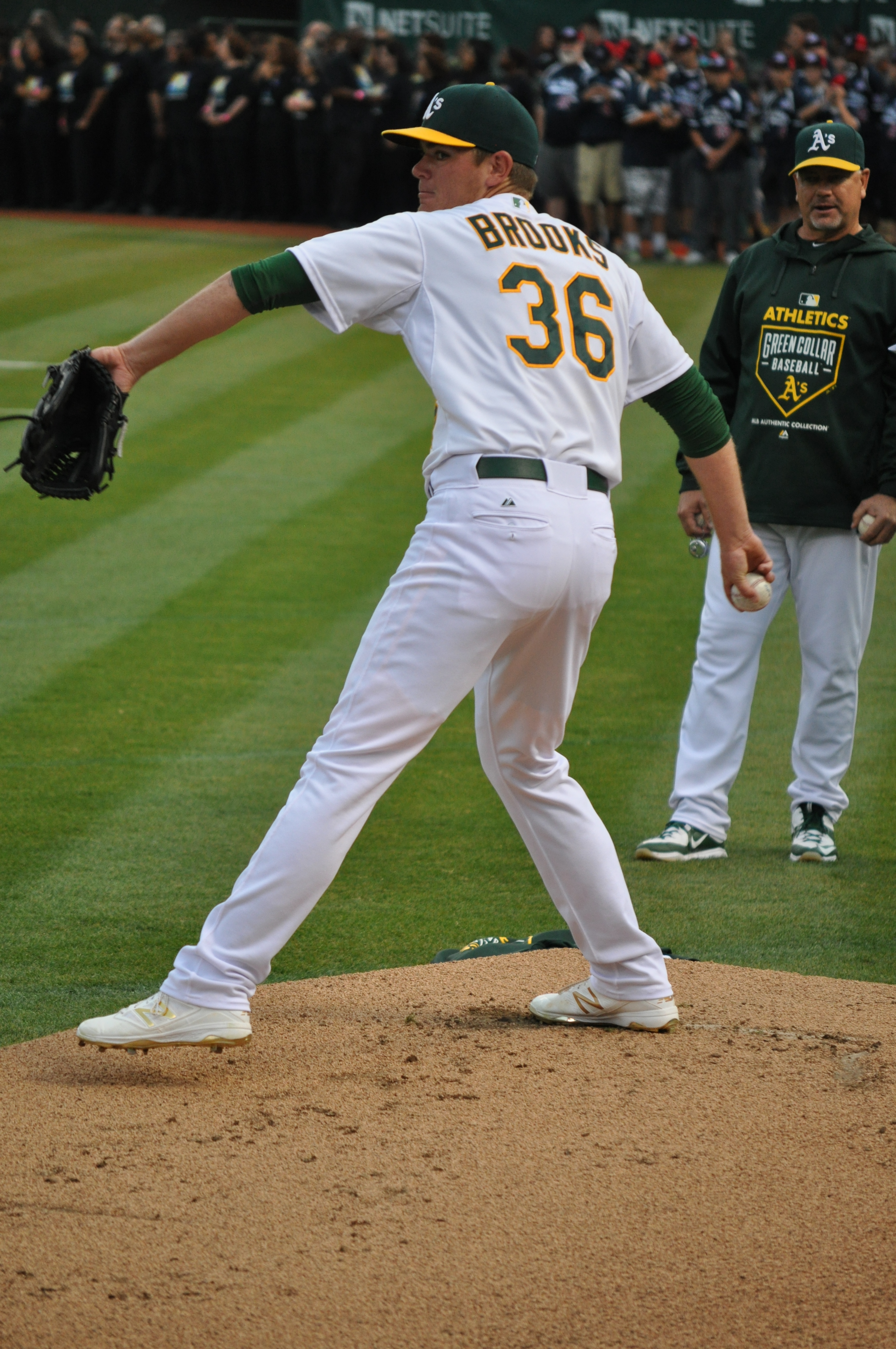 Brooks warms up for his 09-04-15 start against the Mariners